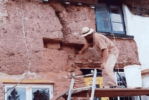 kevin mccabe fixing old cob cottage in halberton, devon, england.